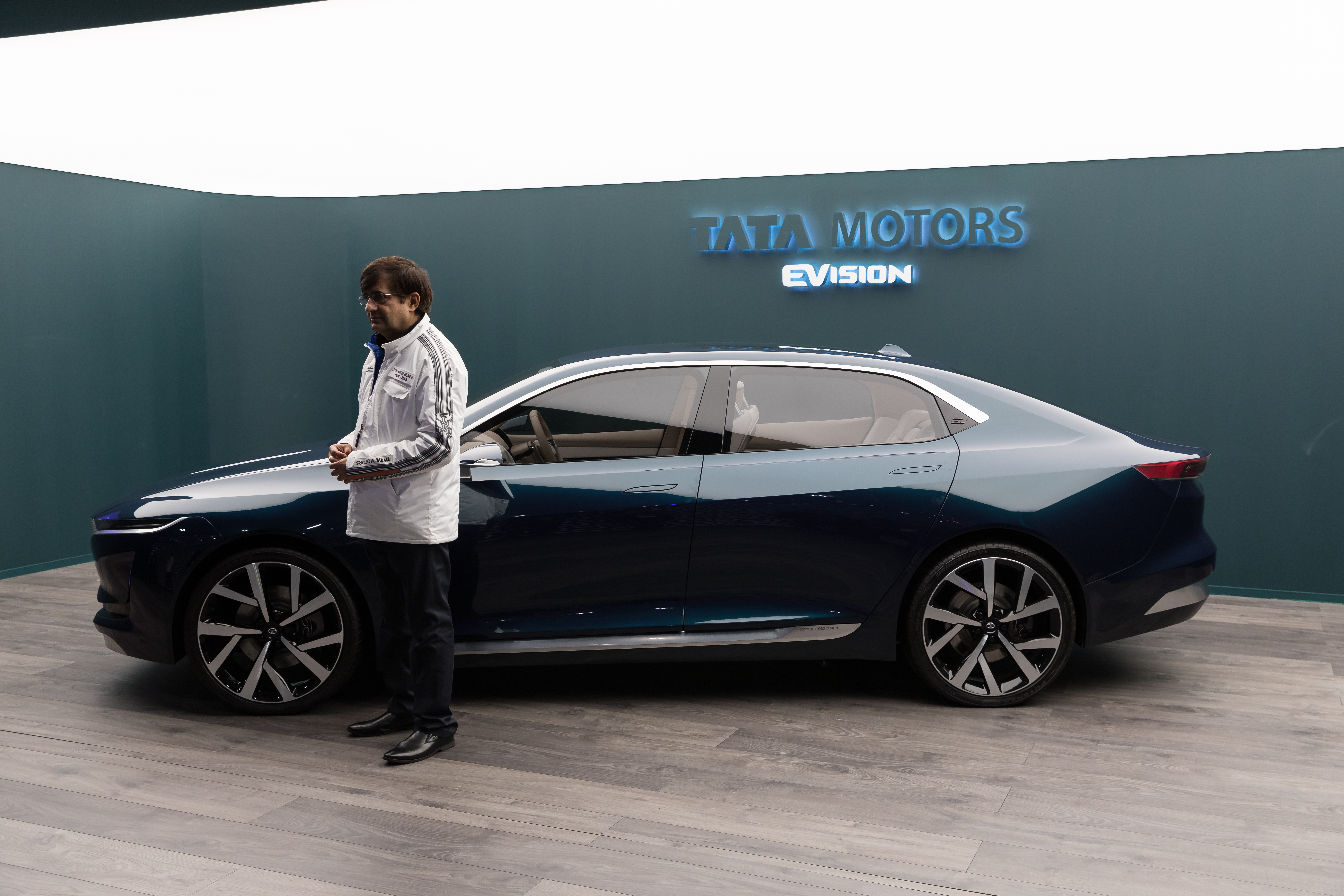 Geneva International Motor Show 2018